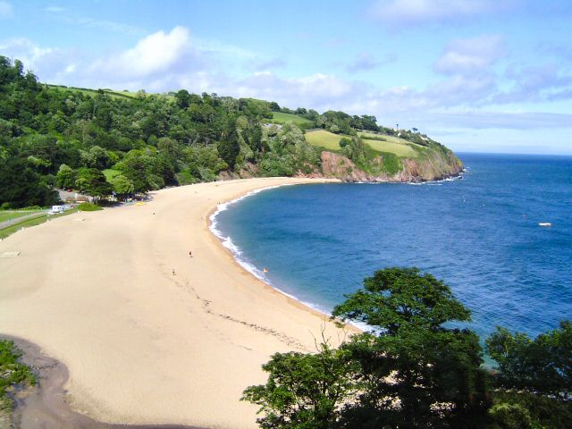 Blackpool Sands. Source of many a tourist brochure about Devon.